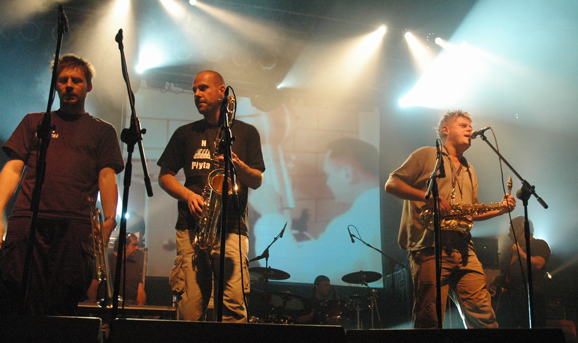 Kult's concert in Warsaw on November 2 2005.